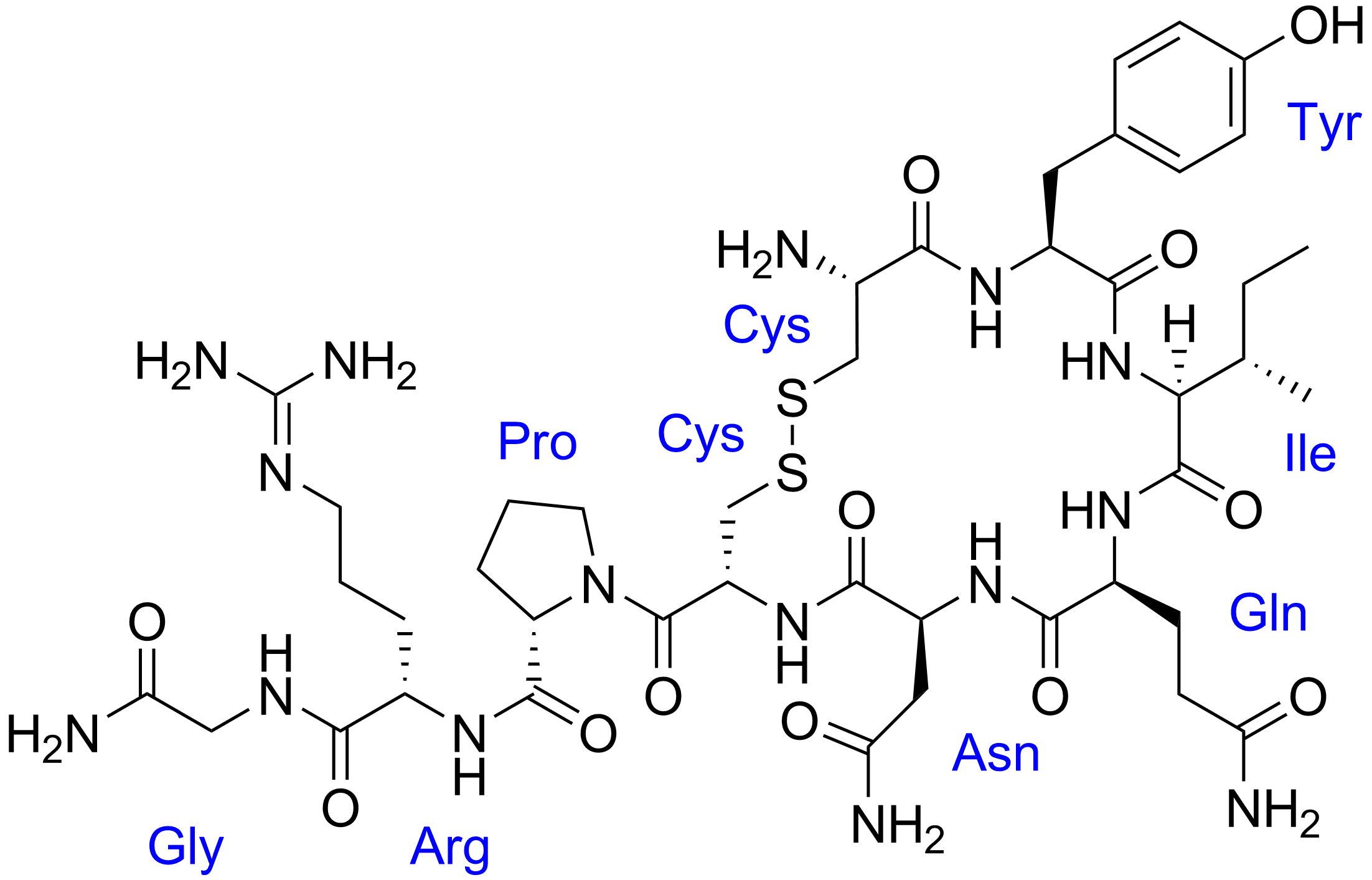 chemical structure of vasotocin with labeled amino acids